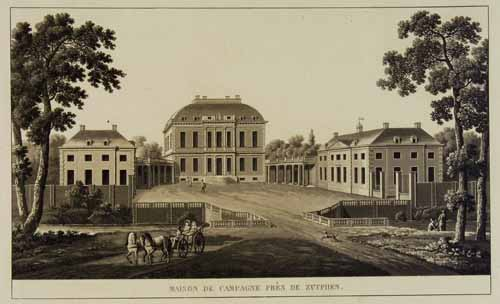 Castle The Voorst near Zutphen ca. 1823-1824